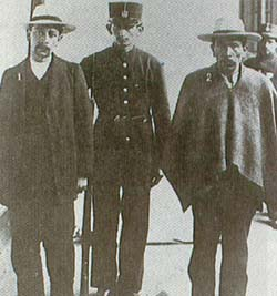 Assasins of Rafael Uribe Uribe